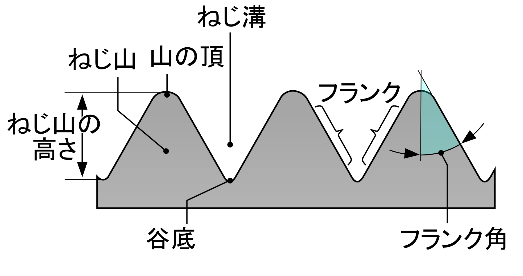 Screw (bolt) 04B-J